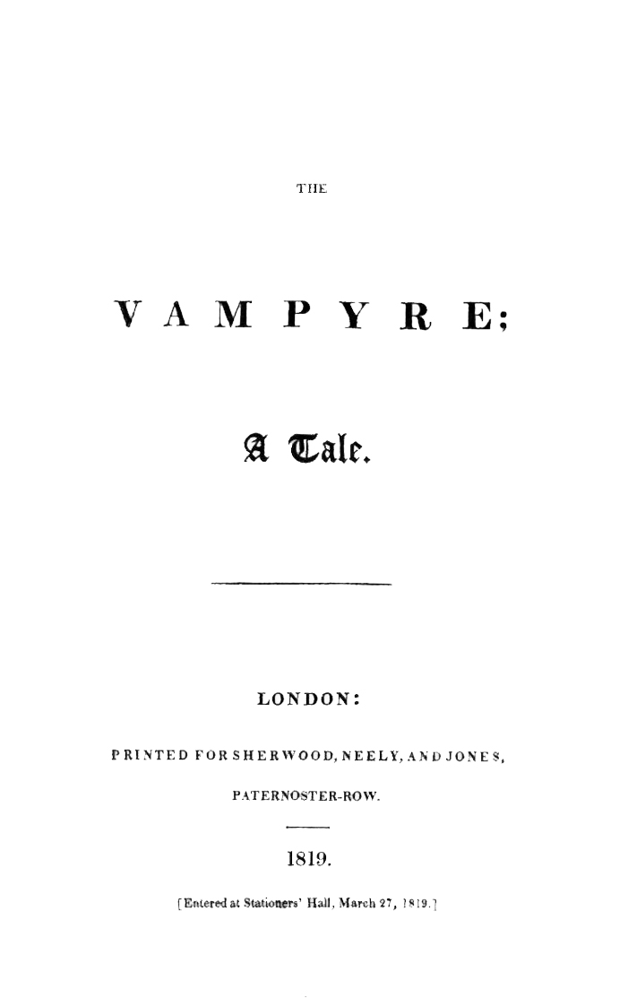 Title page for The Vampyre; A Tale (London: Sherwood, Neely, and Jones, 1819) by John William Polidori, 1795-1821. EC8.P7598.819va (A), Houghton Library, Harvard University